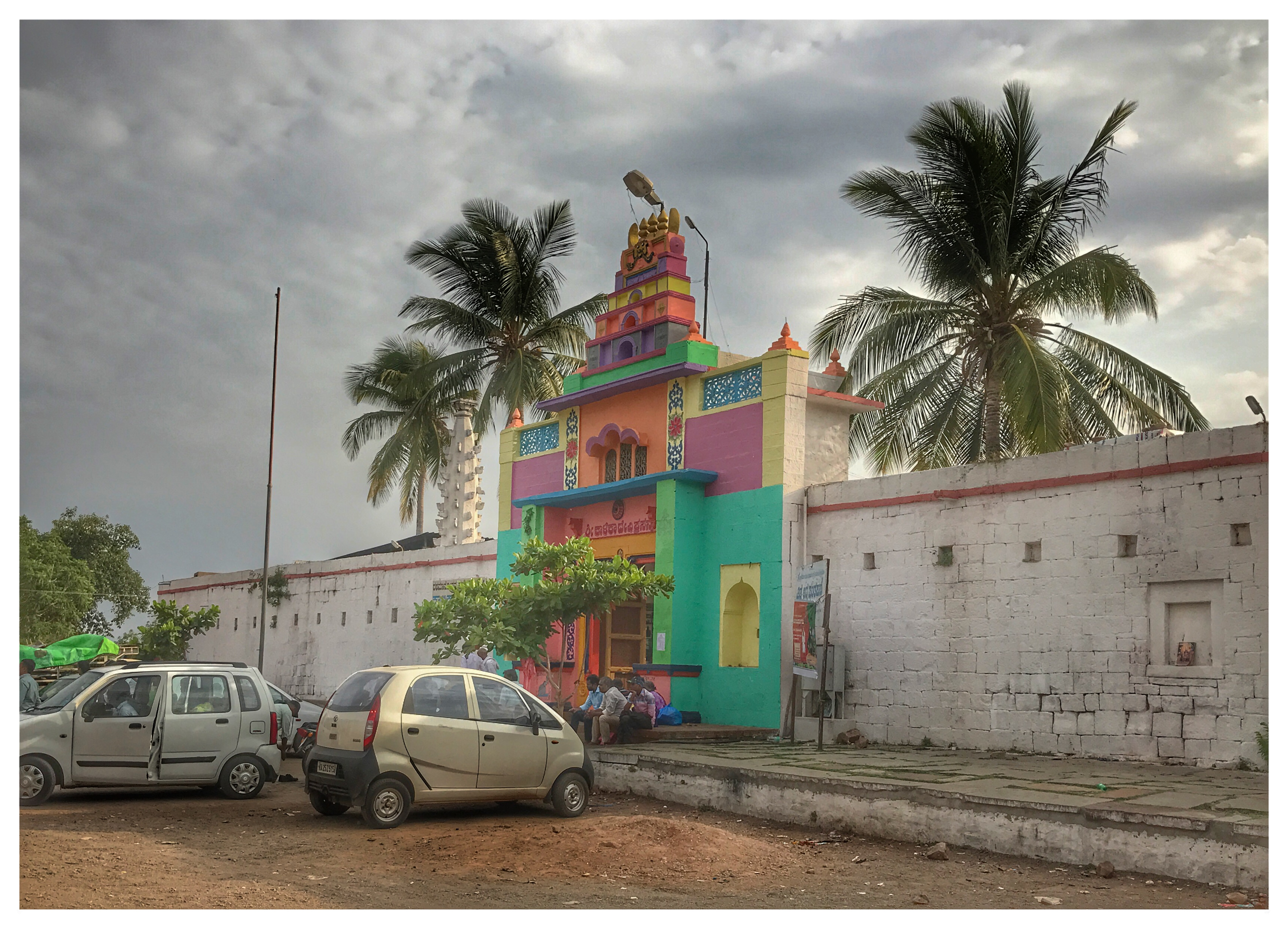 temple entrance